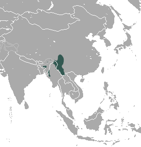 White-tailed Mole (Parascaptor leucura) range